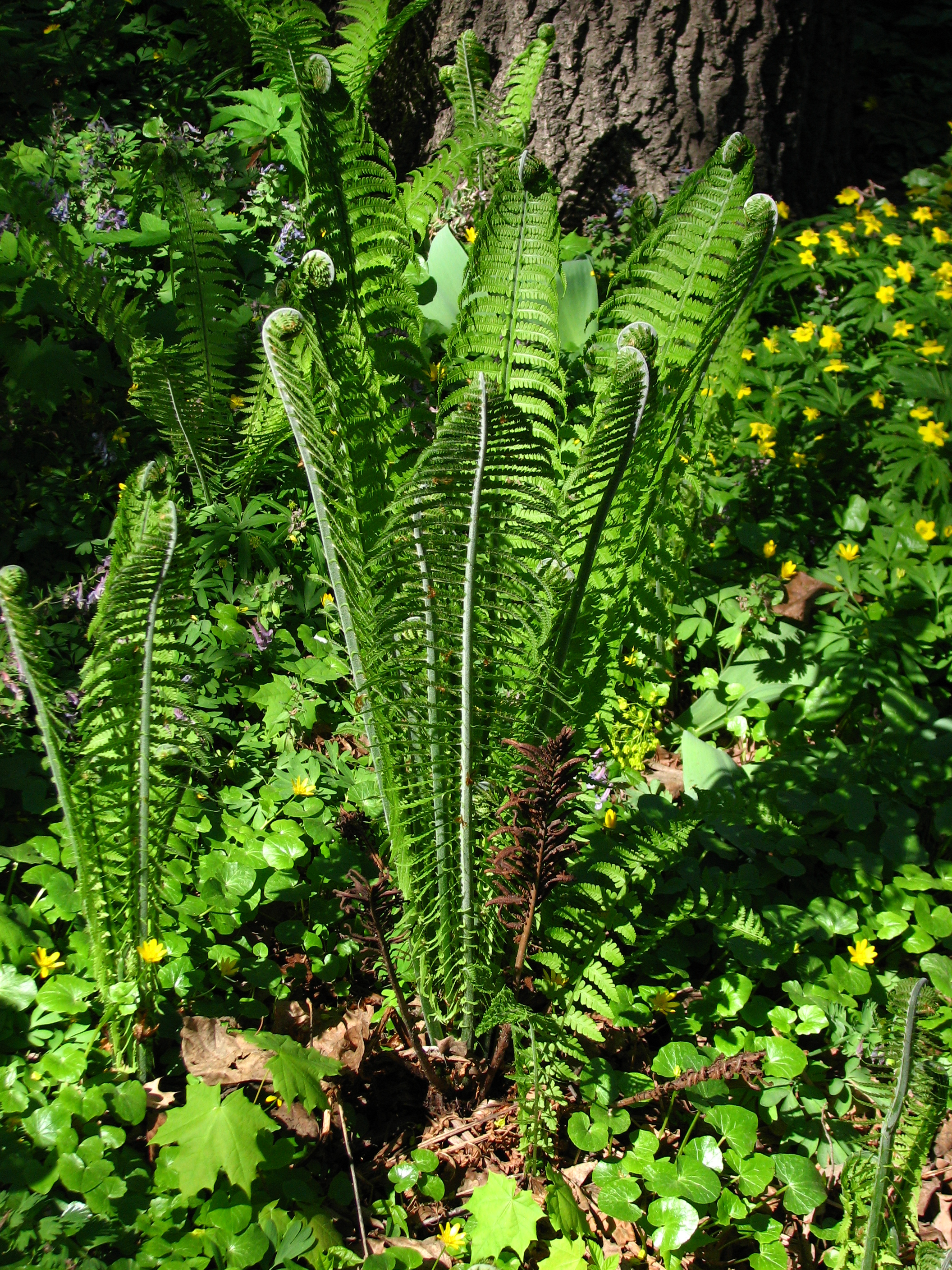 Ostrich fern (Matteuccia struthiopteris) in the Moscow State University Botanical Garden "Aptekarsky Ogorod".